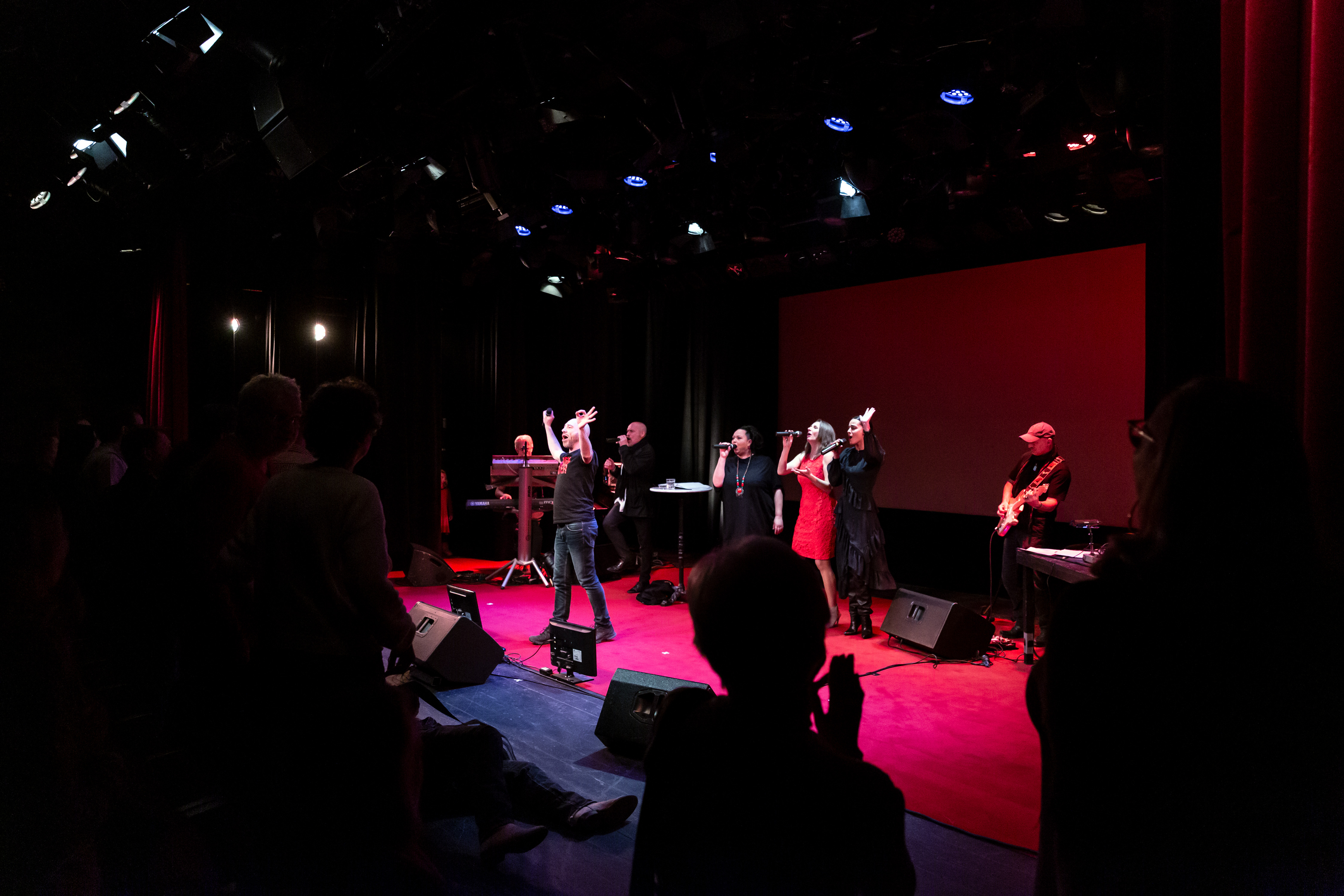 The Slow Club – Epilog, in memoriam Hansi Lang. A concert program with music by Lang and The Slow Club performed by: Thomas Rabitsch (keys, arr), Wolfgang Schlögl (el) and Andy Bartosh (git) with Madita, Birgit Denk, Tini Kainrath, Johannes Krisch and Roman Gregory (voc); Rabenhof Theater in Vienna, Austria.